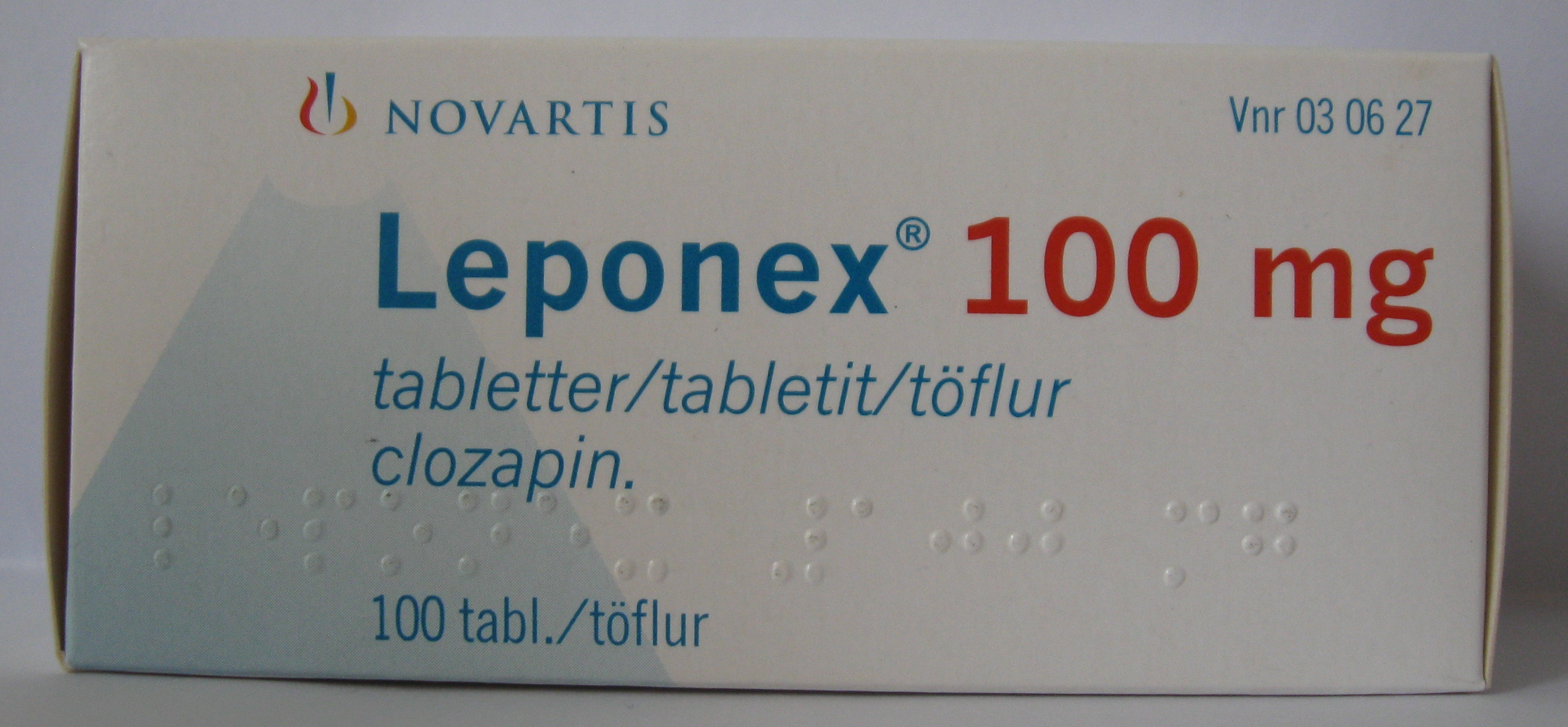 Leponex 100 mg